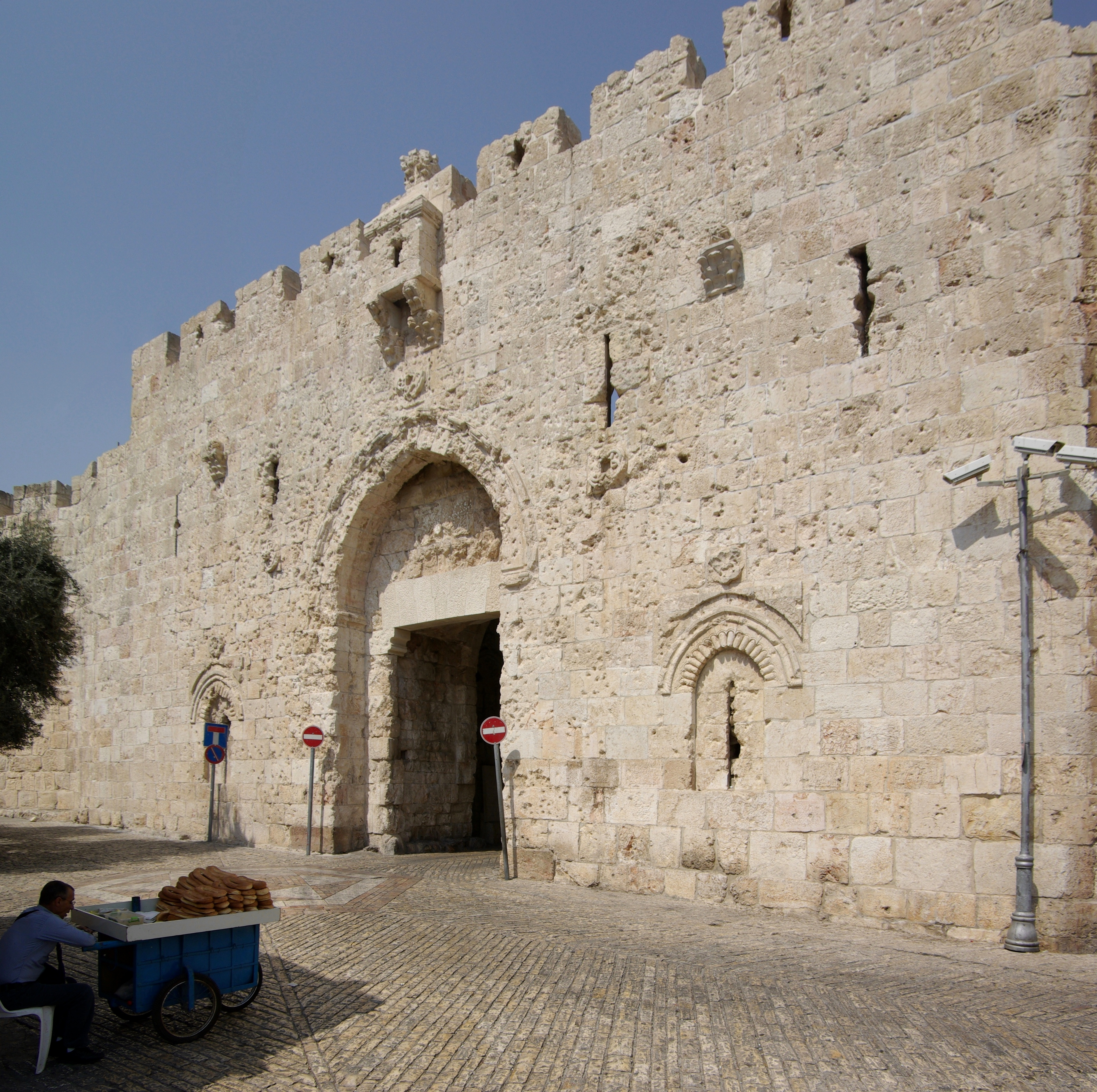 Jerusalem, Ziongate, Fieldside